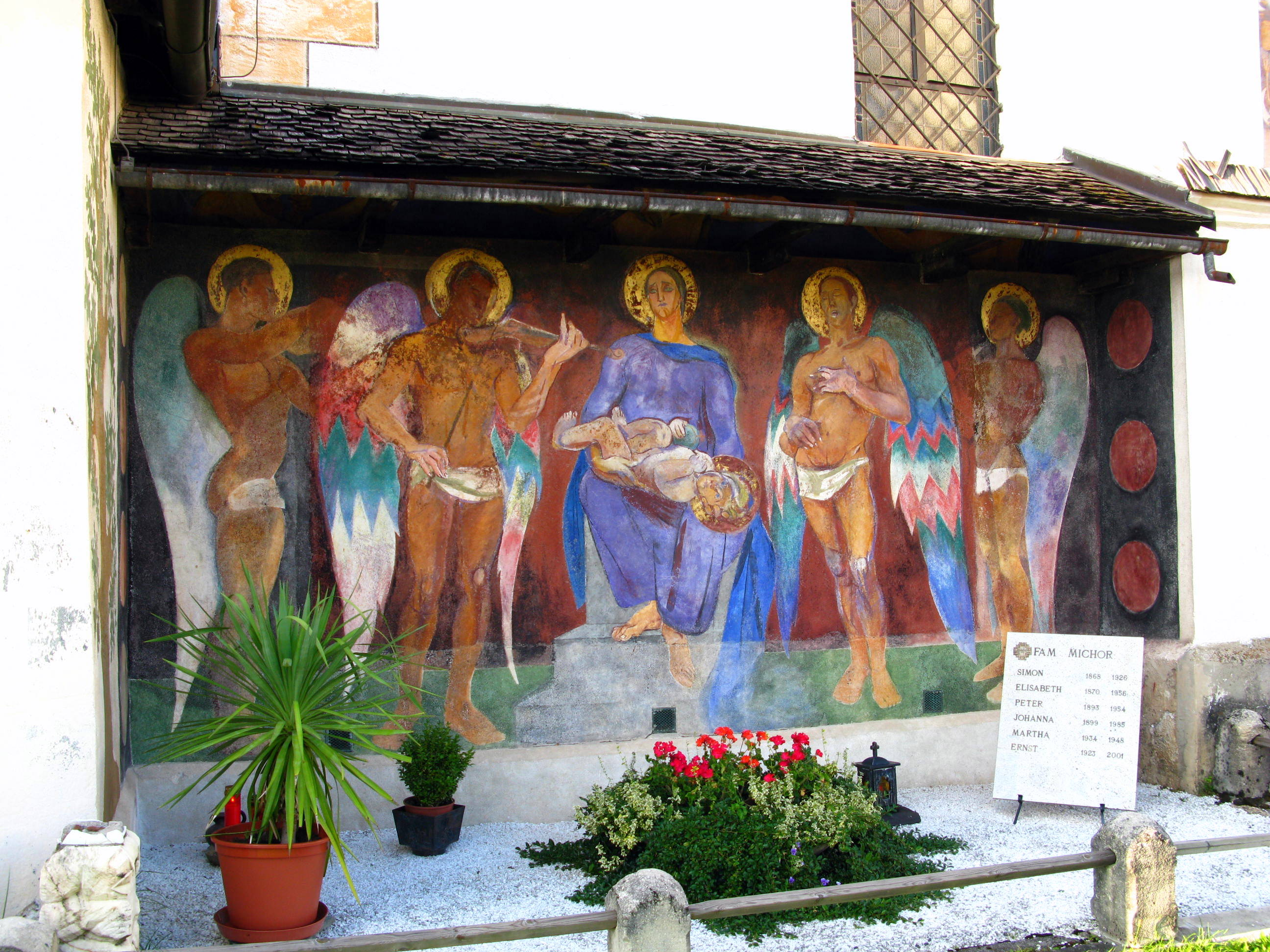 Fresco "Madonna with child, surrounded by music playing angels" monumental work by Anton Kolig, painted 1927-29 on the southern wall of the church at Saak, situated in the community of Noetsch / Carinthia / Austria / EU.